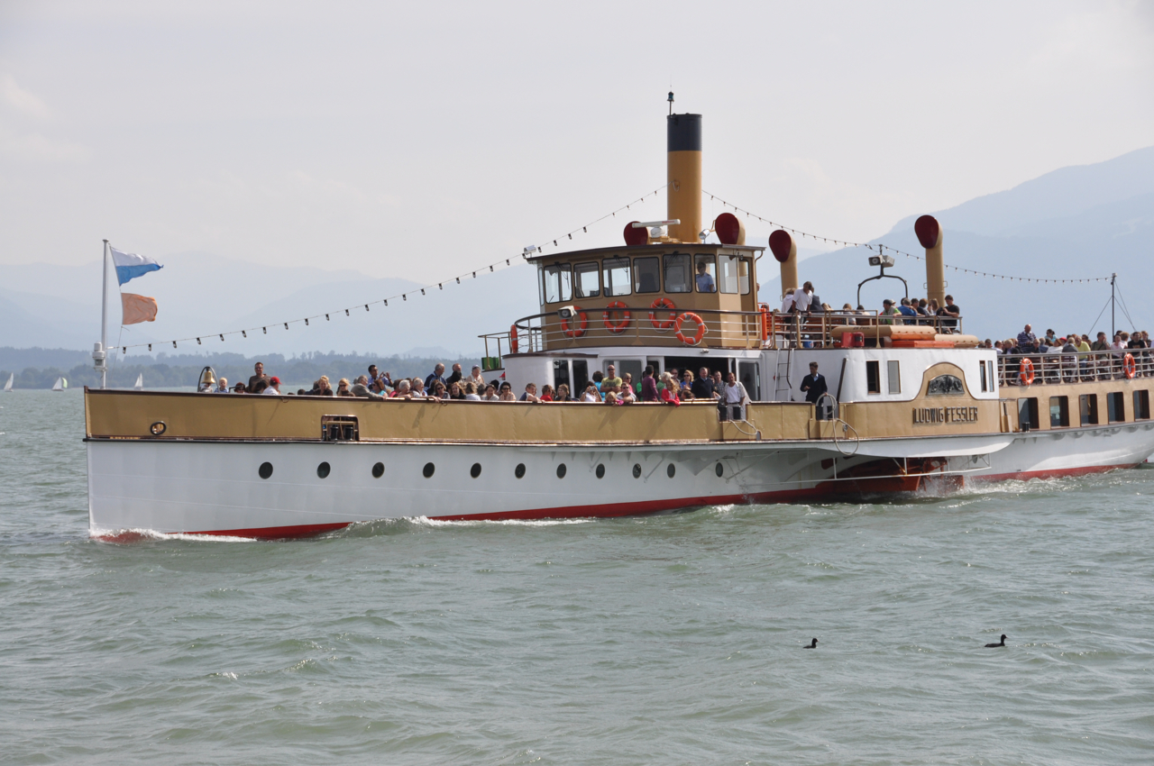 The paddle steamer RMS Ludwig Fessler on Chiemsee in Bavaria in 2009.